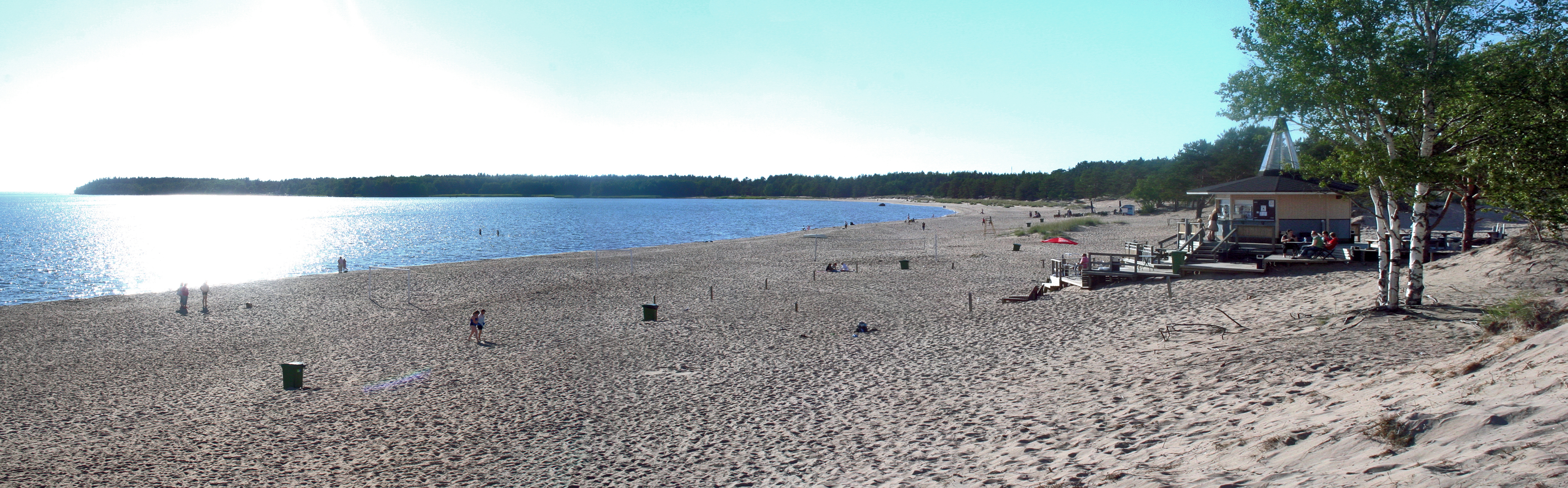 Yyteri beach at Pori, Finland